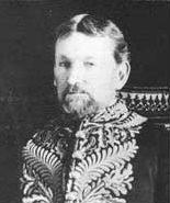 John Christian Schultz, a member of the Canadian House of Commons from 1871 to 1882, a Senator from 1882 to 1888, and the fifth Lieutenant Governor of Manitoba from 1888 to 1895.